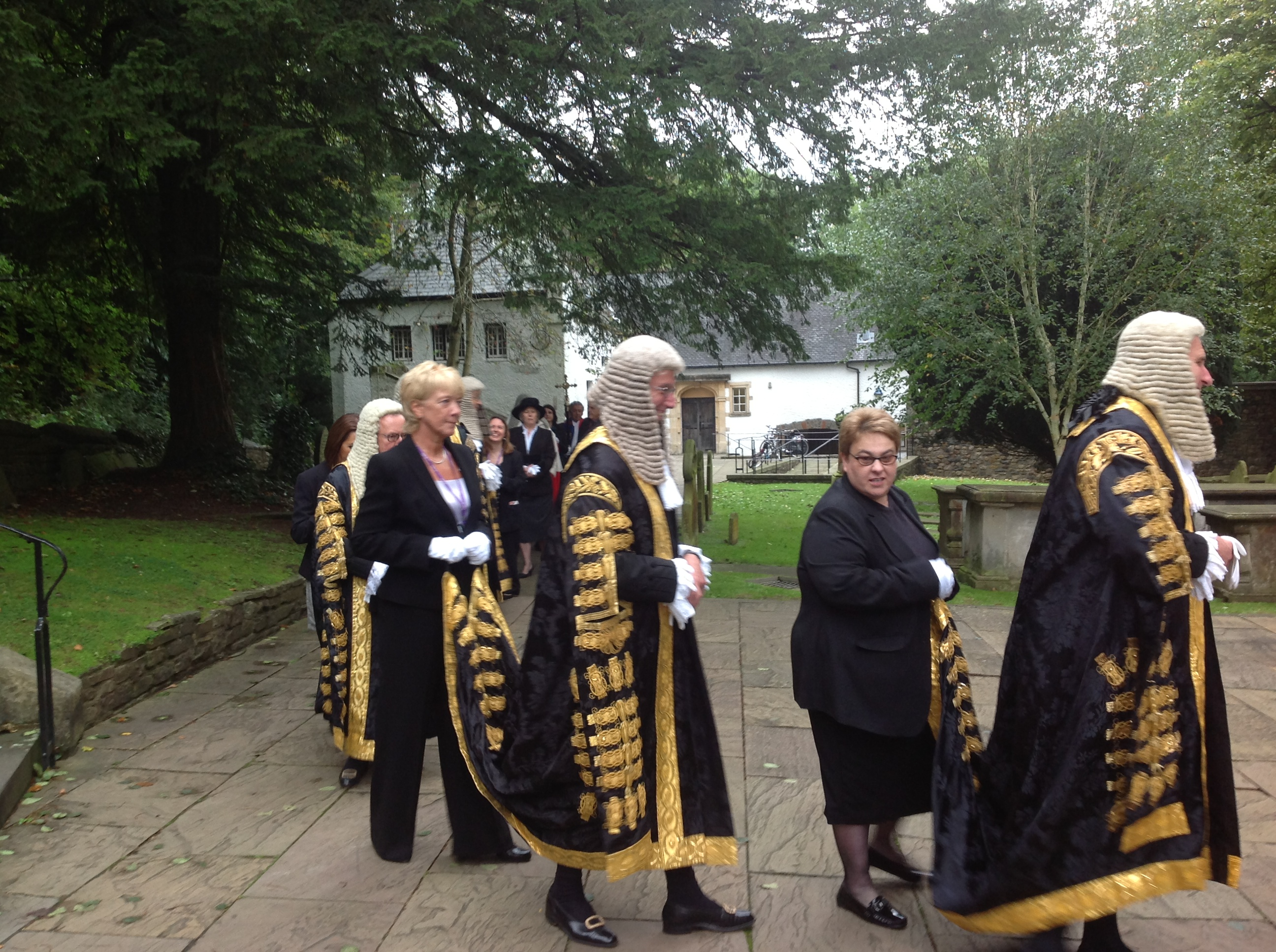 The Legal Service for Wales at Llandaff Cathedral. 13 October 2013